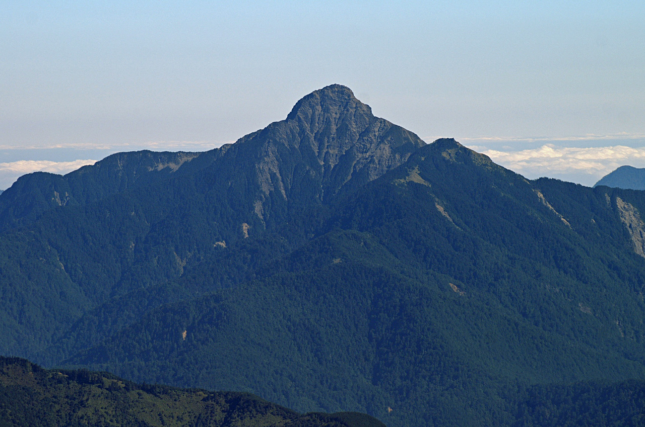 Central Range Point of Taiwan